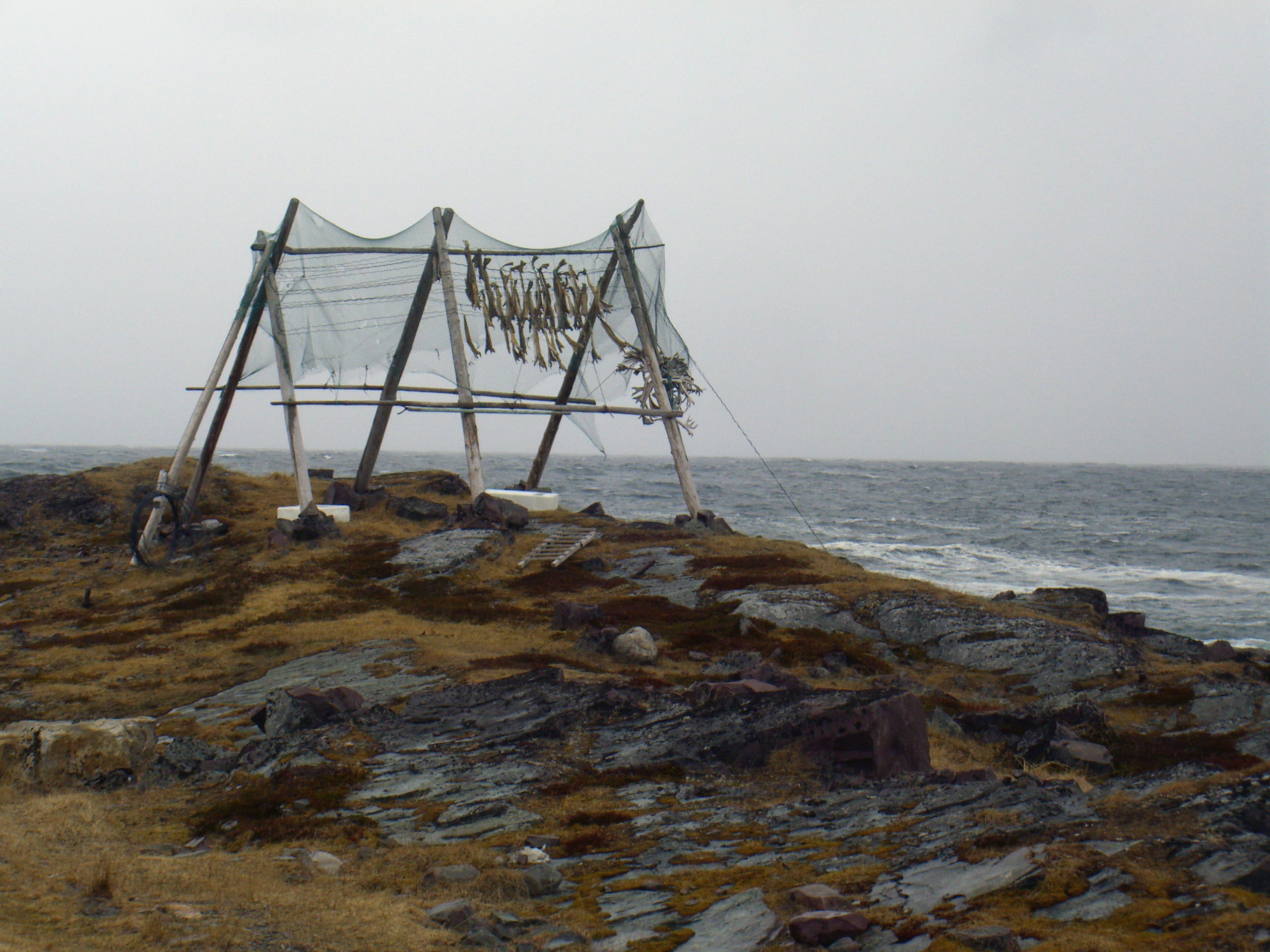 Stockfish drying at a rack at Kiberg(?), Varangerhalvøya, Finnmark, Norway.